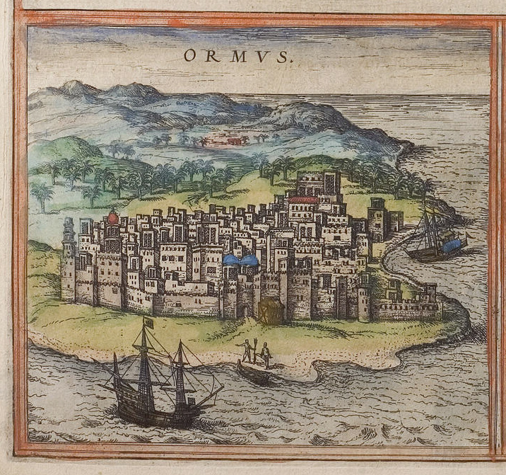 Hormus